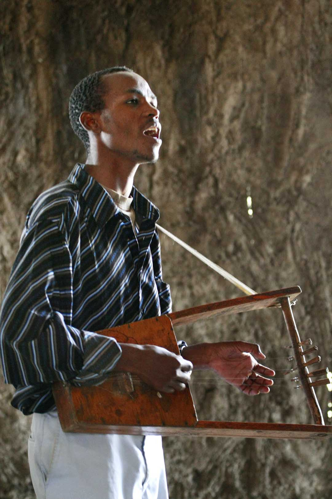 This young man is playing the krar, a traditional instrument of Ethiopia. The name is very similar to the kora of West Africa.